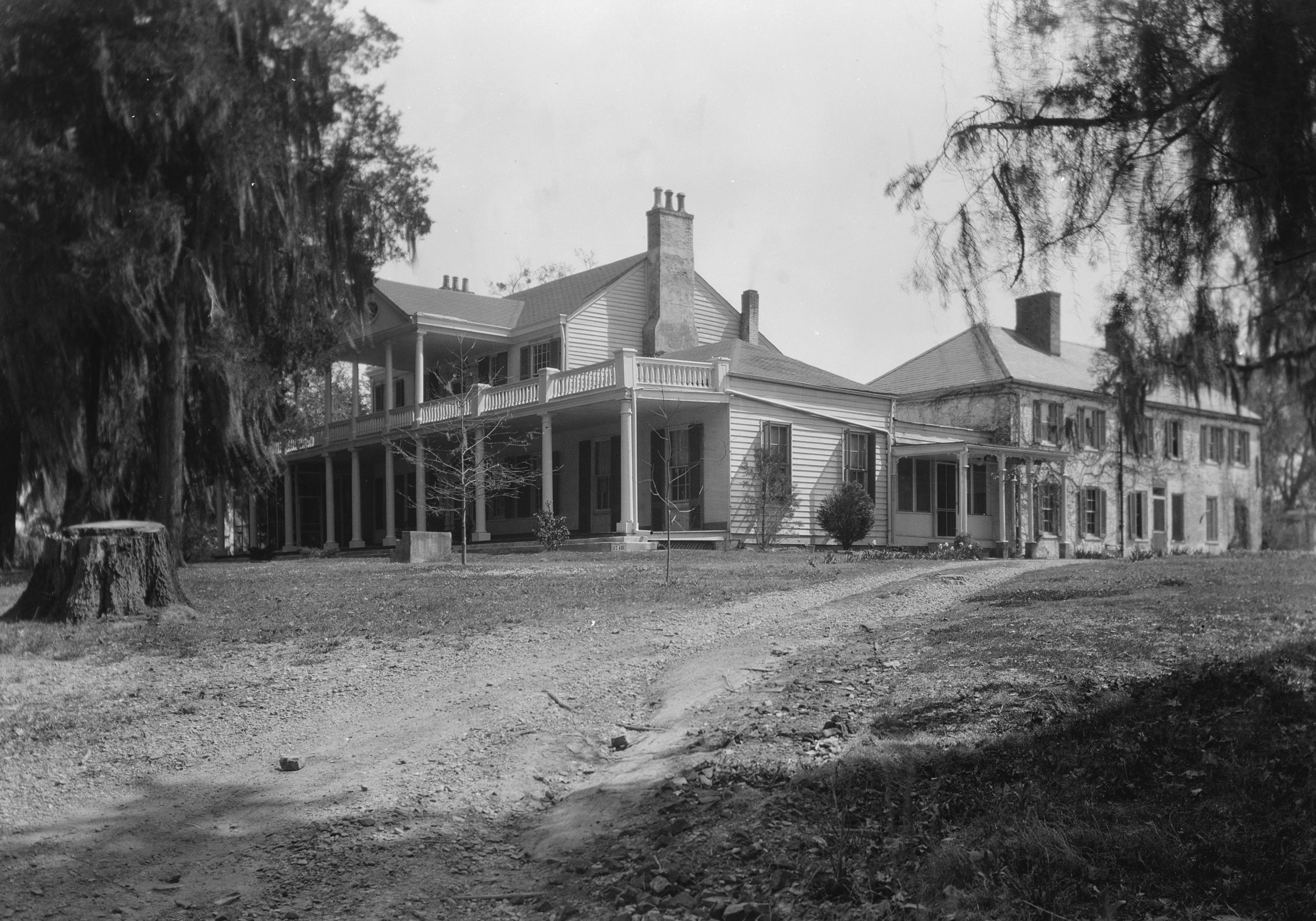 Front of Linden, located at One Linden Place in Natchez, Mississippi, United States. Built in 1785, it is listed on the National Register of Historic Places.